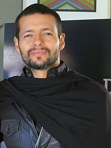 a picture of musician, composer and multiinstrumentalist Draco Rosa